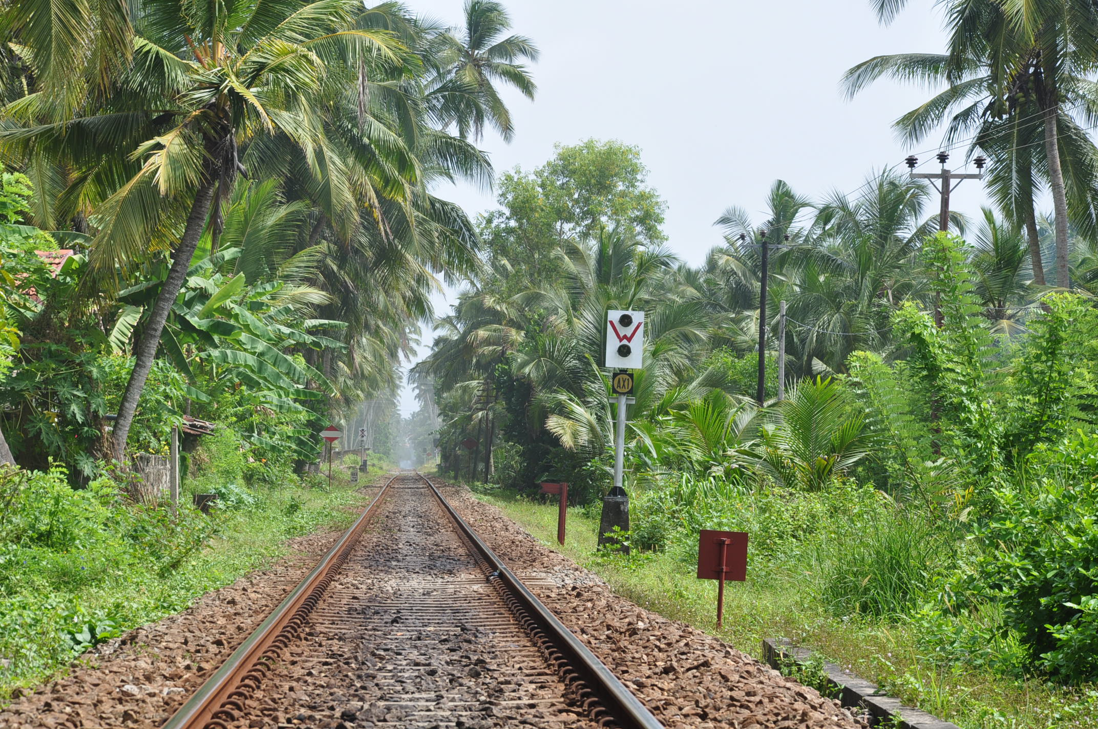 The Colombo - Galle railway at Bentota, Sri Lanka (about 38 miles south of Colombo).